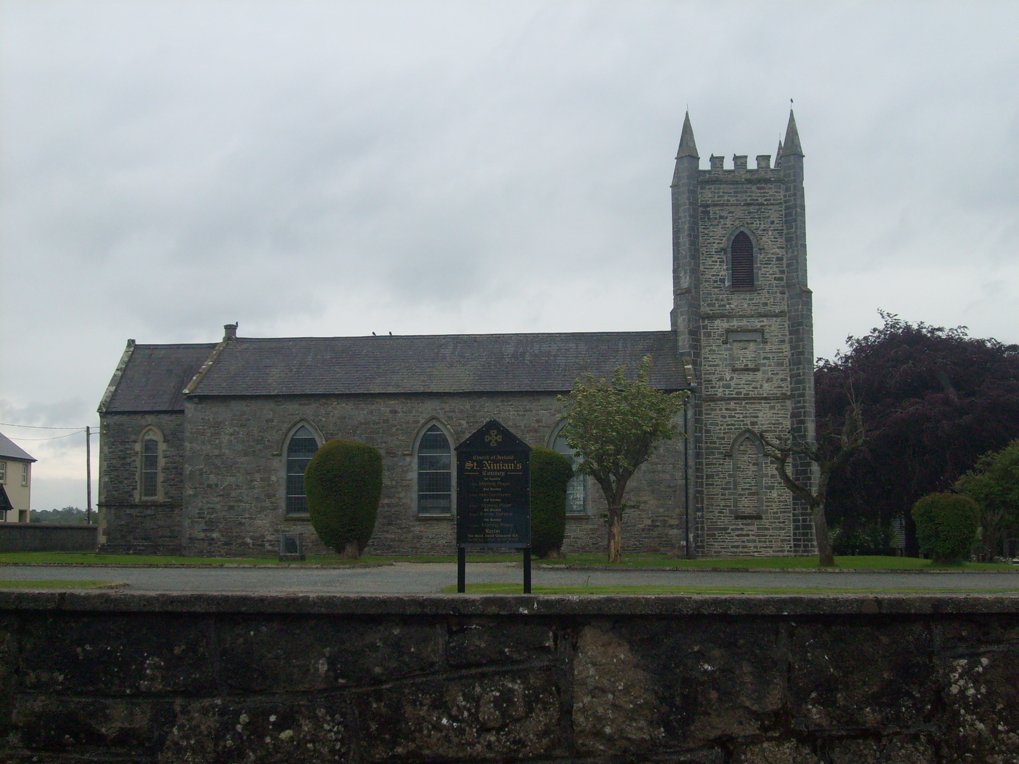 St Ninian's Church, Convoy, Donegal, ÉIRE